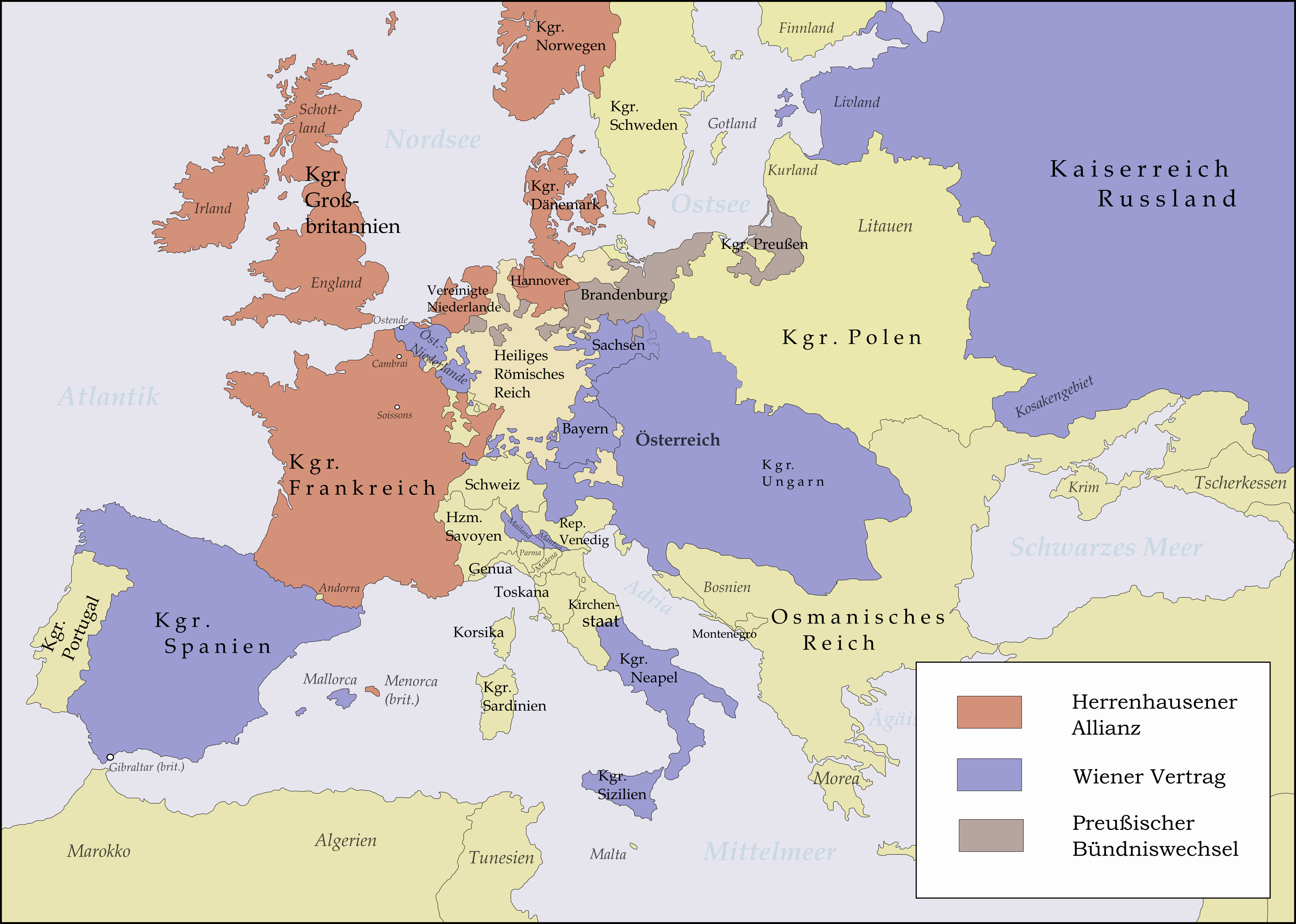 Coalitions in Europe between 1725 and 1730: Alliance of Hannover (Red) and the Vienna Treaty (Blue).